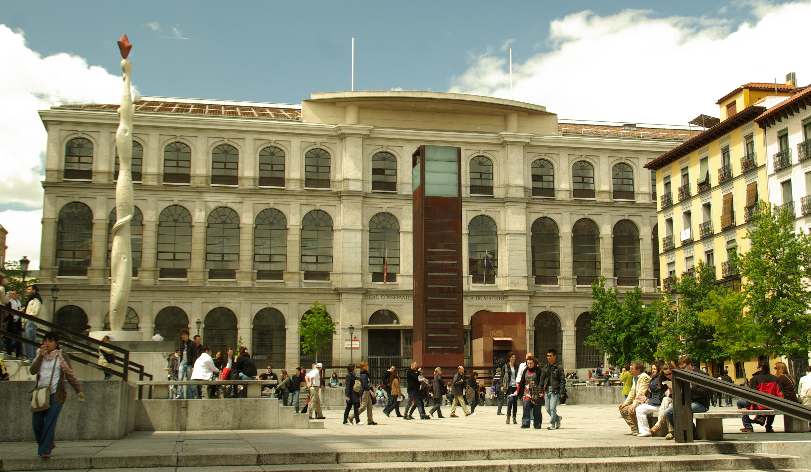 ® MADRID R.C.S. MUSICA REINA SOFIA